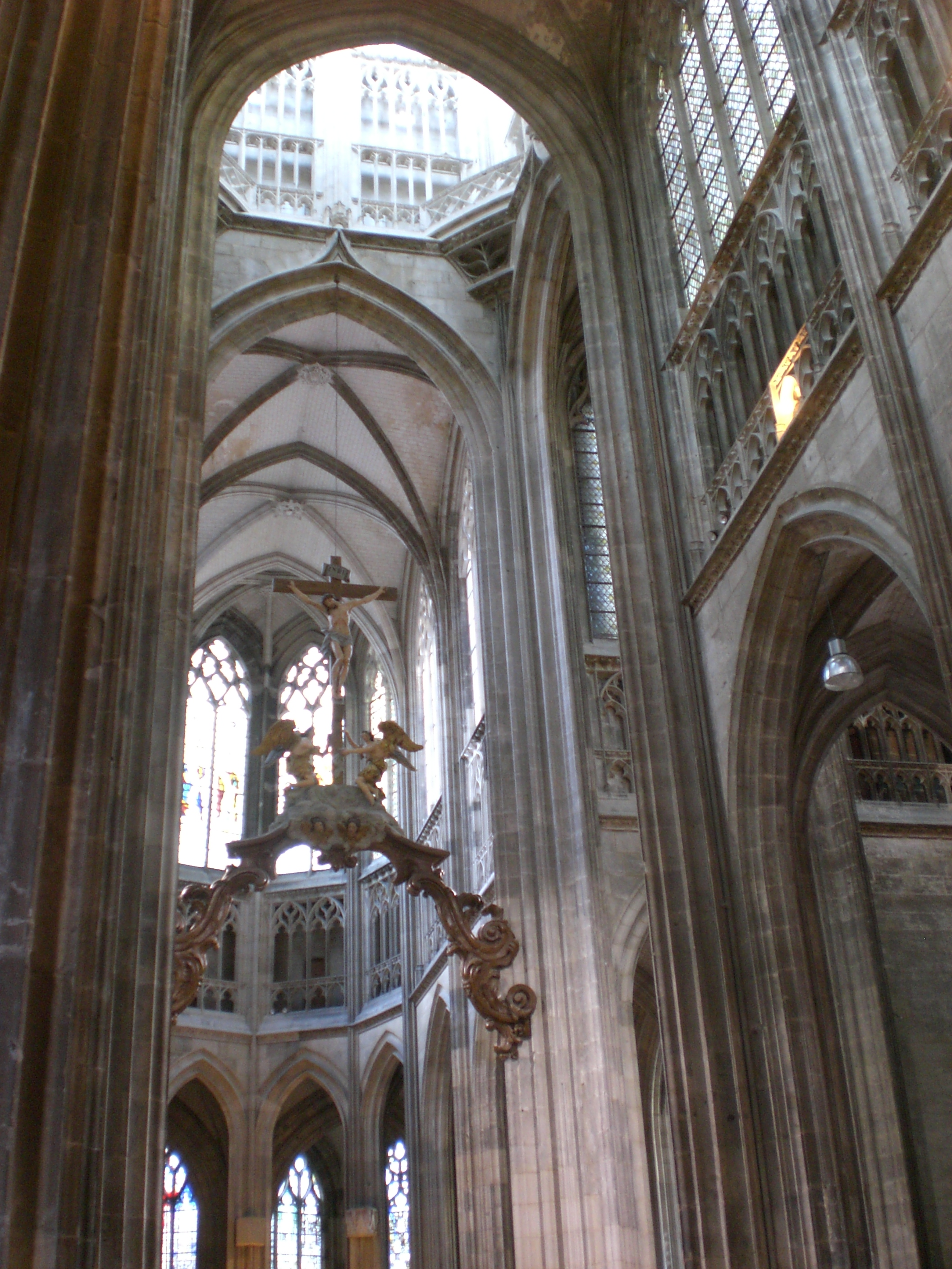 Rouen, Saint-Maclovius's Church, 1436-1520